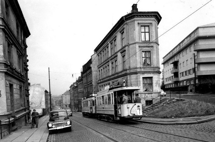 Oslo Sporveier HaWa 606 on the Kampen Line in HagegataNorsk bokmål: Oslo Sporveier. Trikk tilhenger type HaWa nr. 606 linje 7 en av de siste dagene før Kampen-linja ble lagt ned. Volvo PV, mann med sykkel. I oktober 1960 i Hagegata, nedover mot Kjølberggata. Til høyre Brinken.